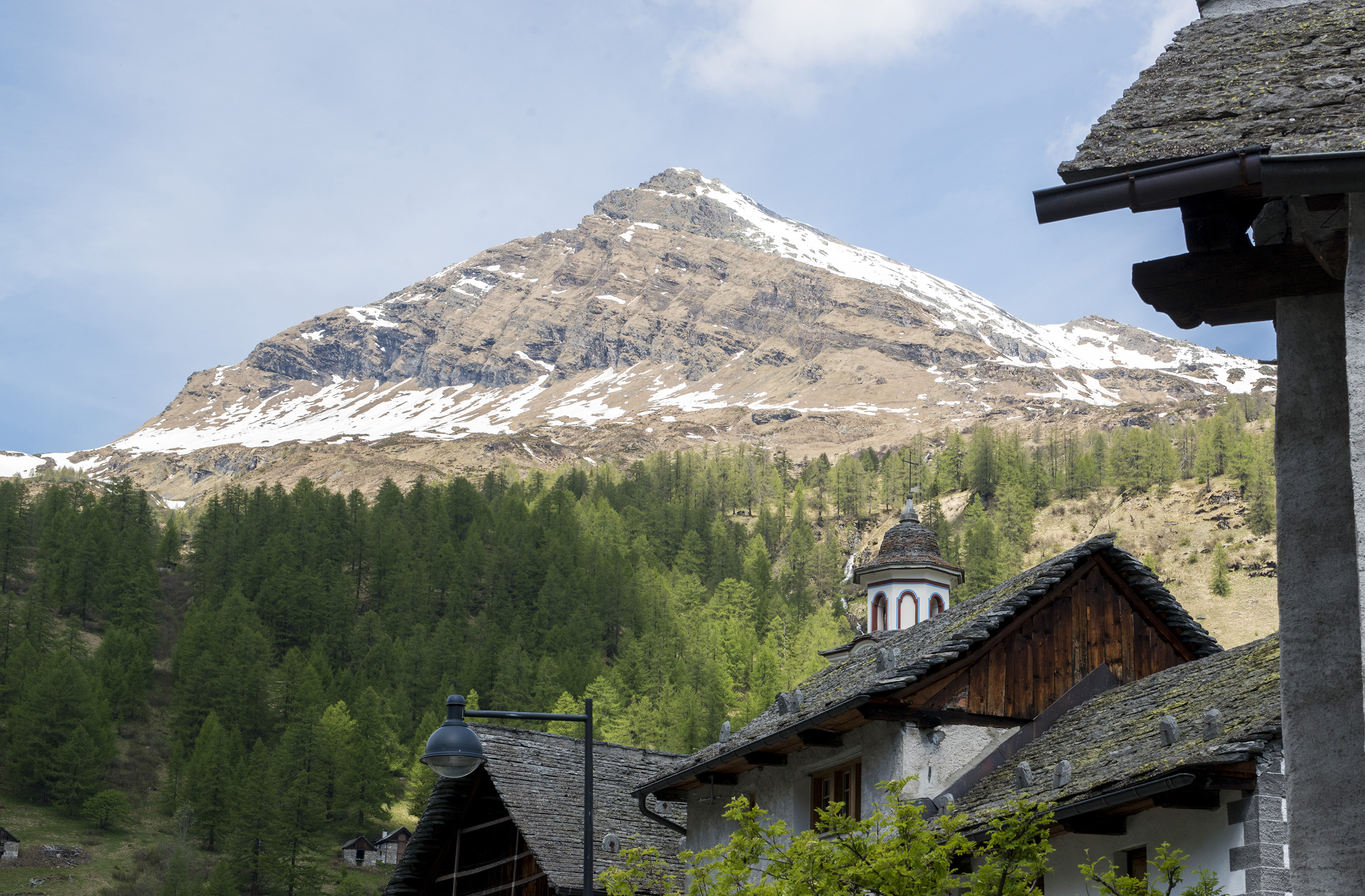 Progetto Parco Nazionale del Locarnese - Bosco Gurin - Pizzo Stella